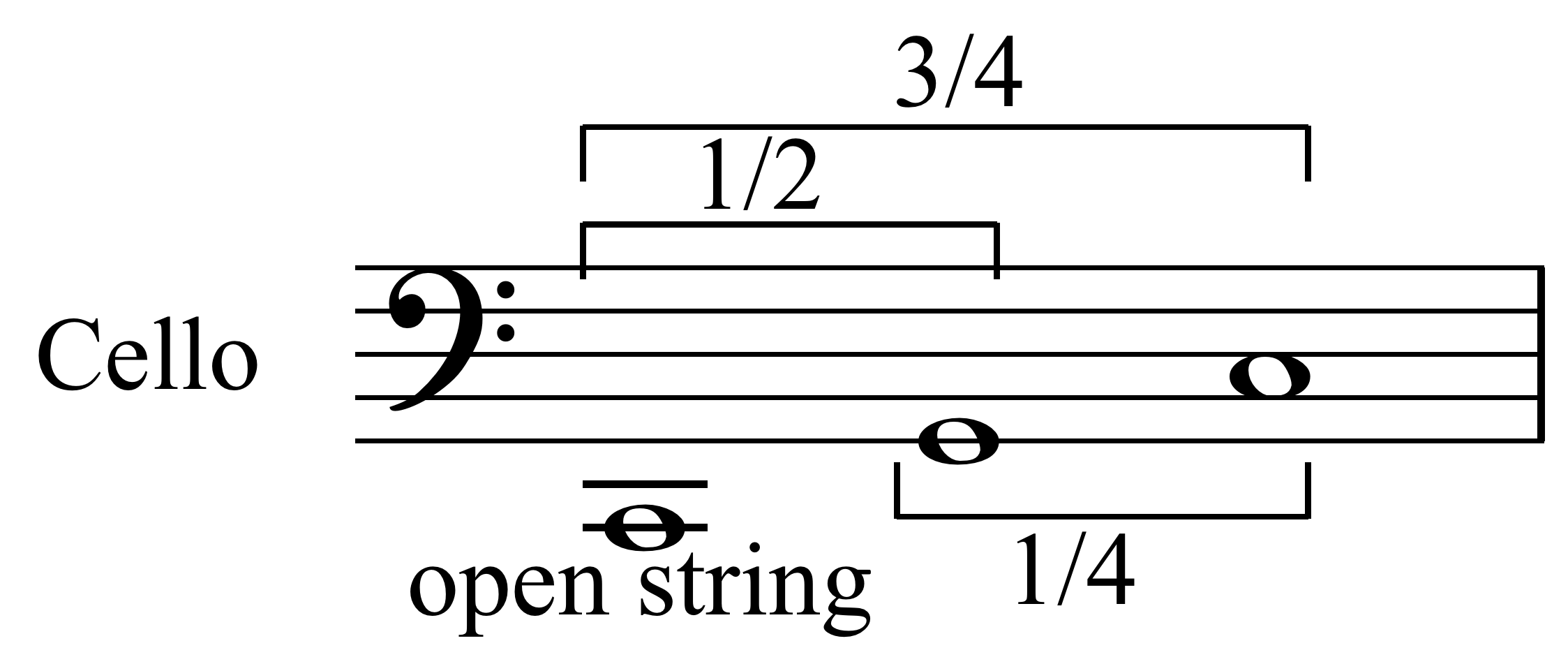 Proportional string fingering. Piston, Walter (1955). Orchestration, p.5. Norton. ISBN 9780393097405.